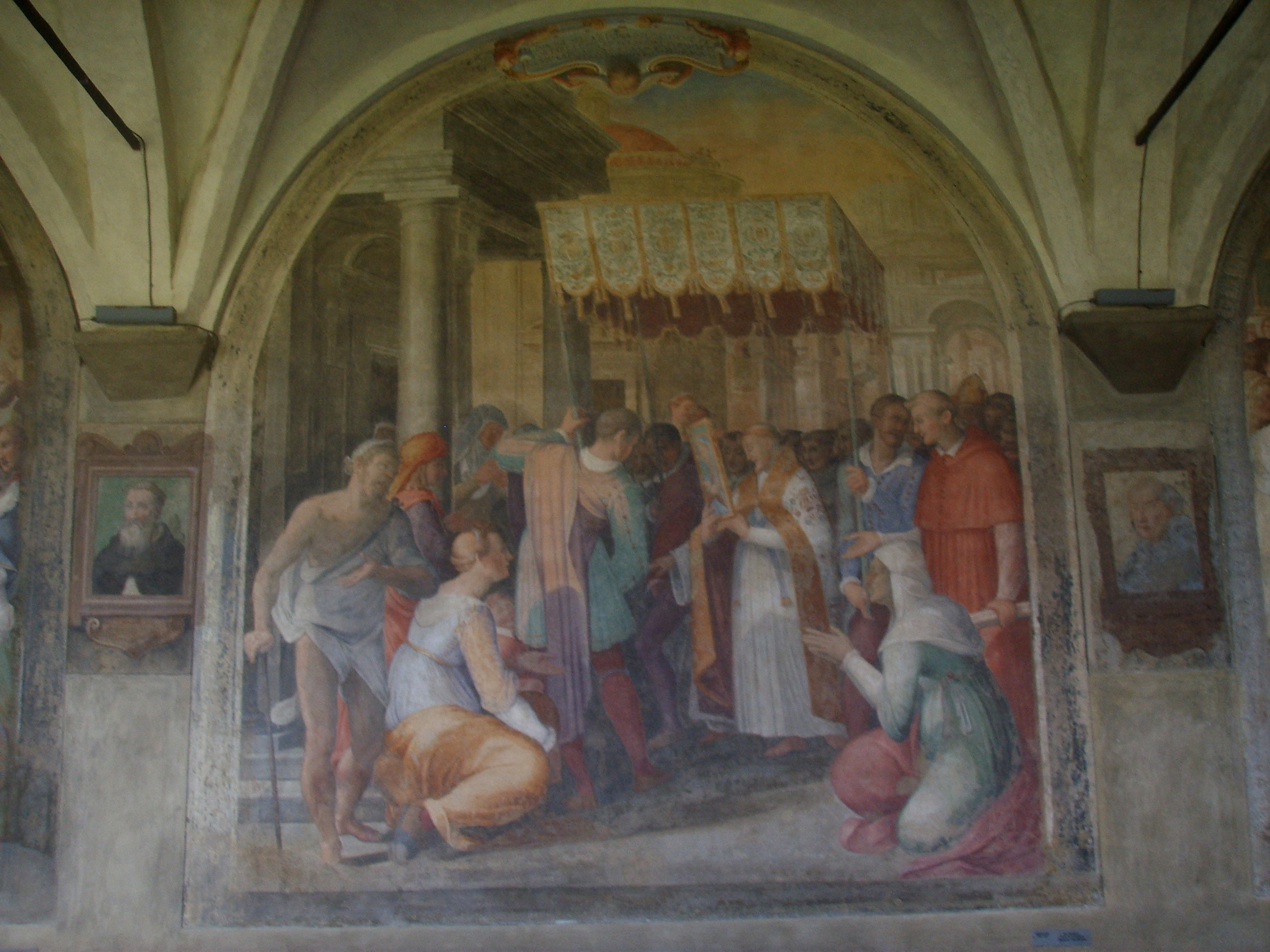 Chiostro Grande in Santa Maria Novella church fresco in Florence, Italy